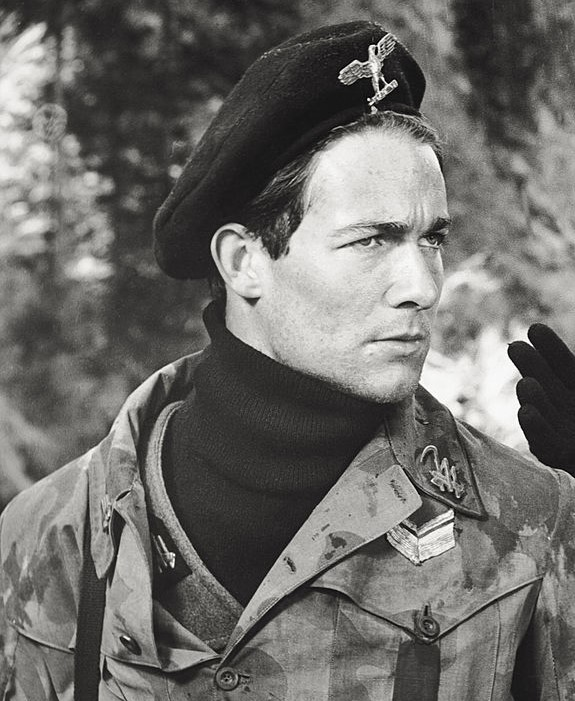 The French actor Jacques Charrier and the Spanish actor Francisco Rabal acting in the film 'Tiro al piccione'. Italy, 1961 (Photo by Mondadori Portfolio via Getty Images)